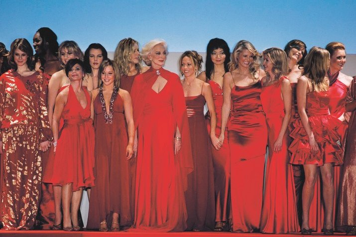 The Heart Truth® is a national awareness campaign for women about heart disease sponsored by the National Heart, Lung, and Blood Institute (NHLBI), part of the National Institutes of Health, U.S. Department of Health and Human Services (DHHS). Through the campaign, NHLBI leads the nation in a landmark heart health awareness movement that is being embraced by millions who share the common goal of better heart health for all women. The campaign message is paired with an arresting visual—the Red Dress—designed to warn women that heart disease is their #1 killer. The Heart Truth created and introduced the Red Dress as the national symbol for women and heart disease awareness in 2002 to deliver an urgent wake-up call to American women. The Red Dress® reminds women of the need to protect their heart health, and inspires them to take action. Seeking to advance the symbol, The Heart Truth forged a groundbreaking collaboration between the Federal government and the fashion industry, an industry intrinsically tied to female audiences. As a result of this partnership, fashion leaders—including top designers, models, and celebrities—have demonstrated their support for the issue of women and heart disease by participating in The Heart Truth’s Red Dress Collections at New York’s Fashion Week annually since 2003. For more information visit